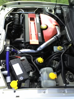 This picture shows the engine of a 1996 SAAB 900SE Turbo. There is an after-market air filter and the bypass valve has been disconnected, creating, in essence, a blow-off valve. The rest of the engine is unmodified. This is my own SAAB 900.